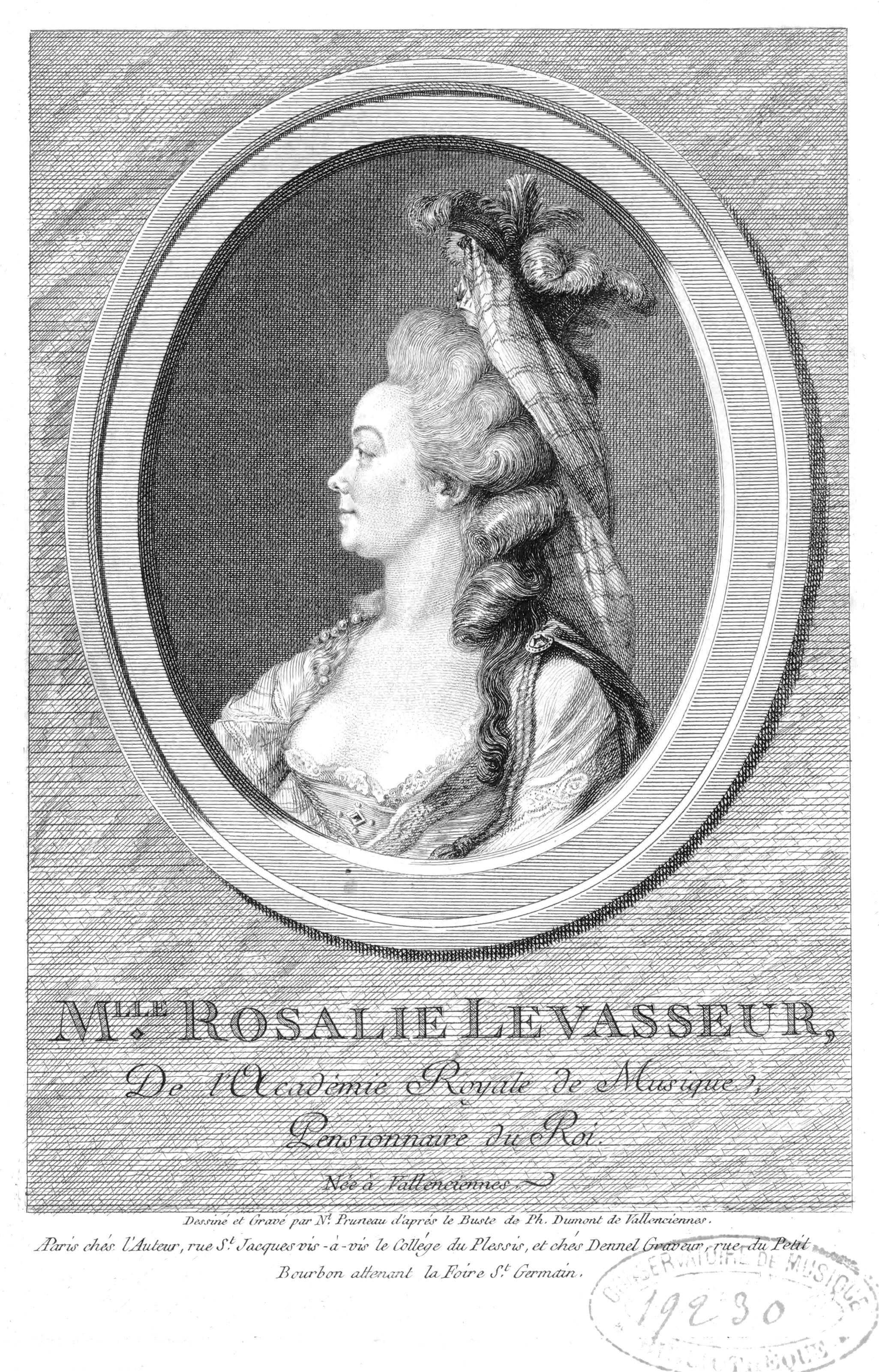 Portrait of Rosalie Levasseur (1749–1826), a French operatic soprano